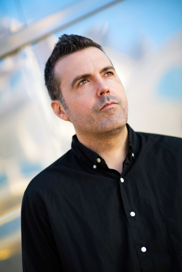 photograph of N Braxton Pope